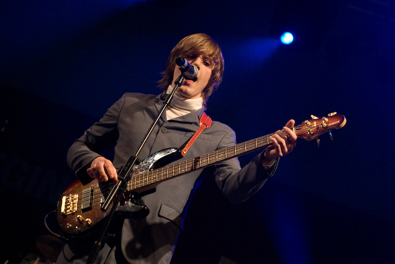 The band "Ruben Cossani" from Hamburg at a concert in Hamburg HafenCity on the occasion of Germany's national holiday in 2008